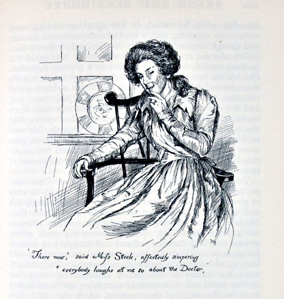 "'There now,' said Miss Steele, affectedly simpering, 'everybody laughs at me so about the Doctor, and I cannot think why.'" - Miss Steele in conversation with Mrs. Jennings. Austen, Jane. Sense and Sensibility. London: George Allen, 1899, page 219.